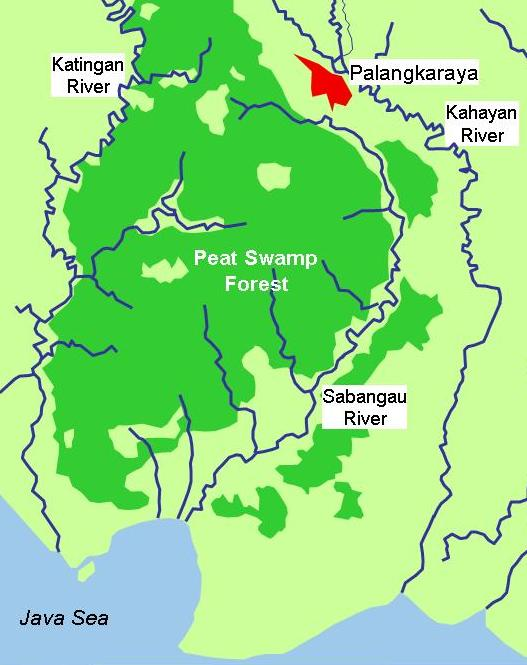 Sabangau River, Central Kalimantan, Borneo and surrounding peat swamp forest